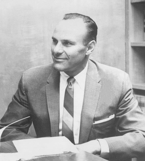 1963 Press Photo English Channel Swimmer Florence Chadwick, Alan Tishman